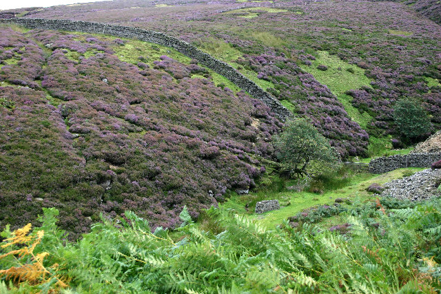 Boundary Wall on Monk's Moor, Upper Teesdale. One could wonder why somebody had gone to all the trouble of having a boundary wall follow the contours of the land exactly. Almost certainly it was because the land was potentially highly valuable in respect of mineral rights.